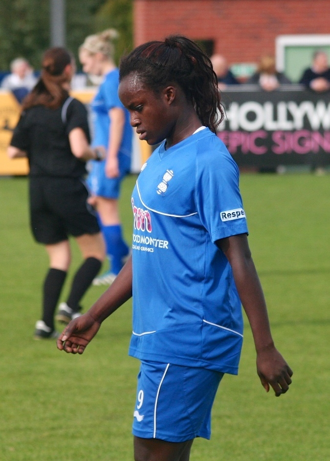 Birmingham City Ladies vs Arsenal Ladies, 7th October 2012